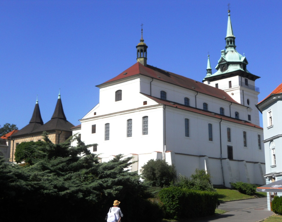 Teplice, church of St John Baptist (1585, 1703)